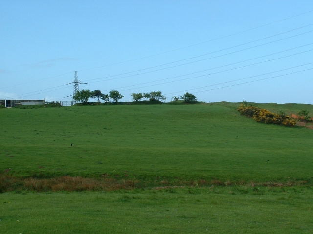 Pen y castell. Looking up to the hill summit from the B4281 at Kenfig Hill. The triangulation point is visible, (although slightly obscured by a bush)to the left of the rightmost tree.